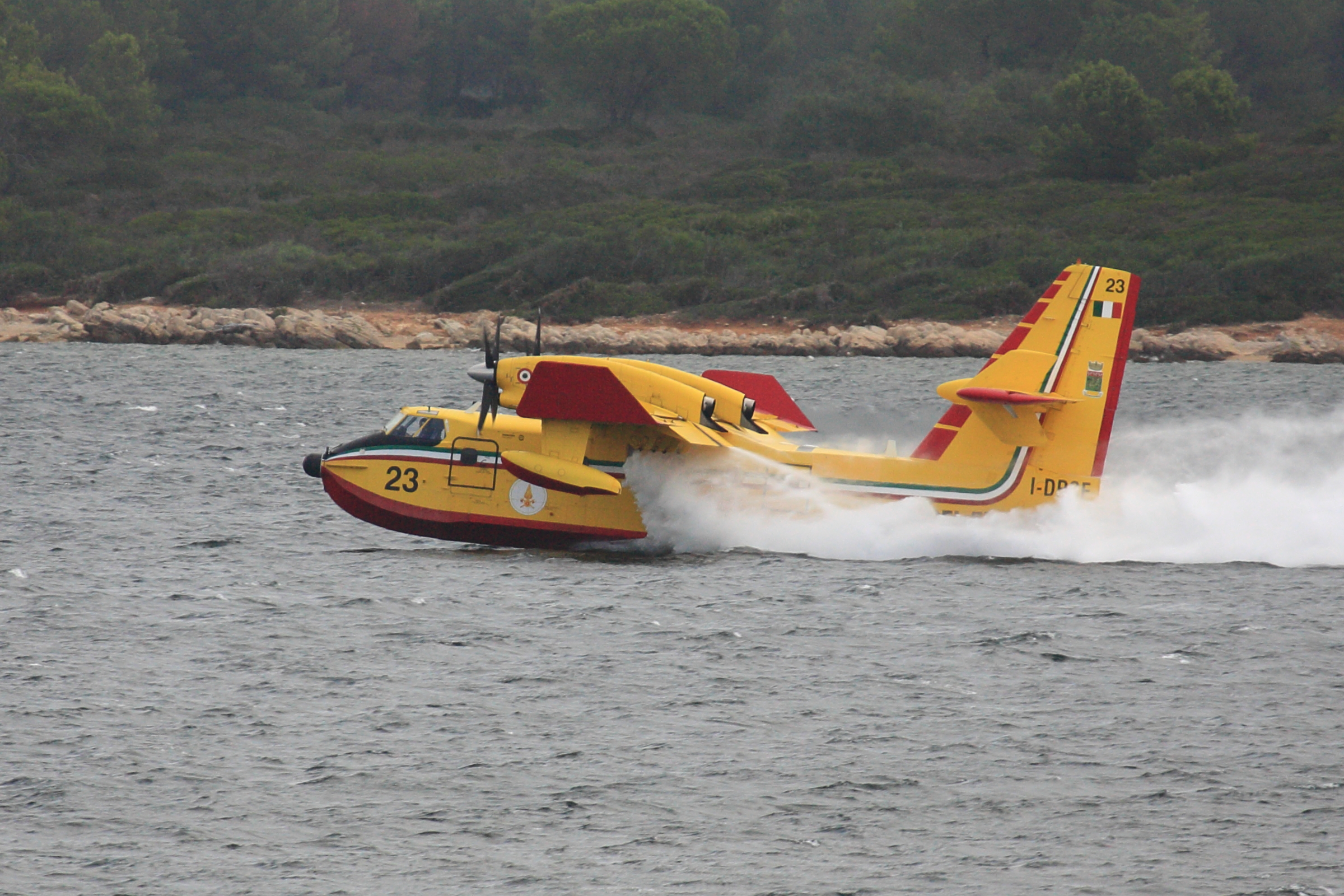 Sardinian Bombardier 415 refilling in Baia delle Ninfe. I-DBCF operated by the Vigili del Fuoco.